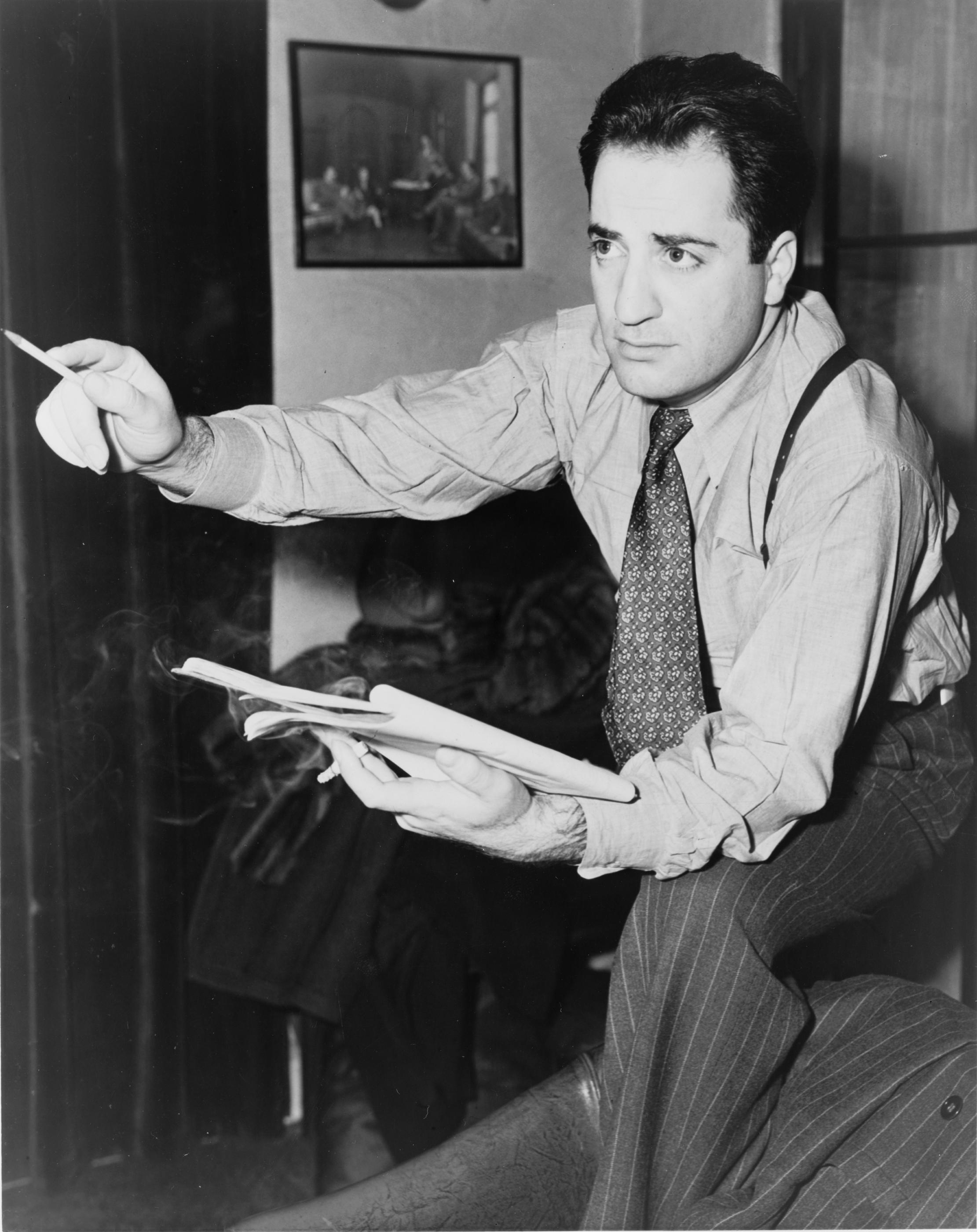 William Saroyan, American writer.